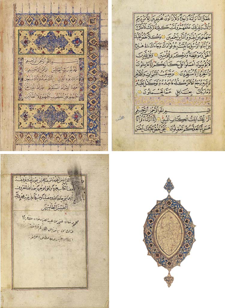 Quran copy by Ottoman calligrapher Shaykh Hamdullah, late 15th century. Naskh script.